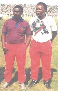 Zambian coaches Alex Chola and Godfrey Chitalu